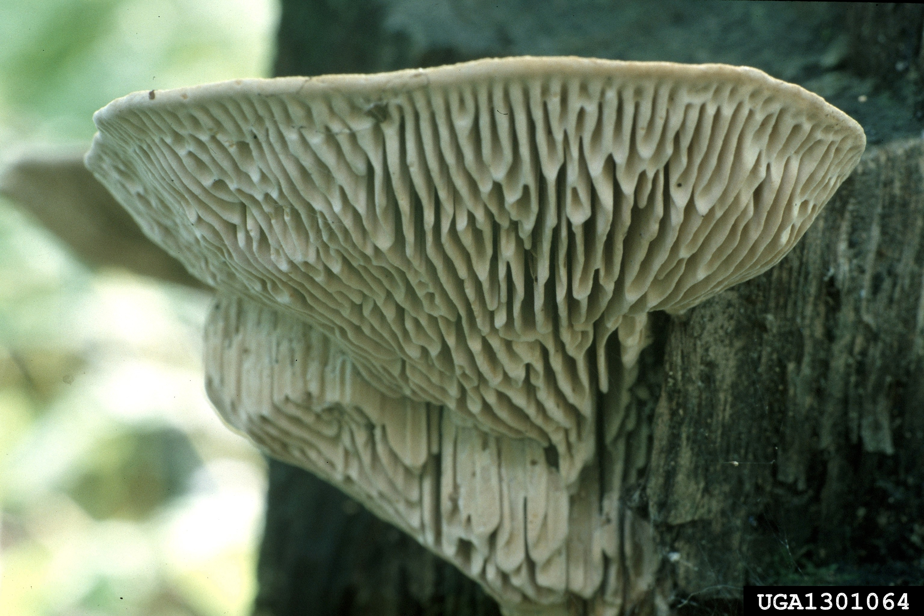 The thick-walled maze polypore, Daedalea quercina, growing on oak. Photographed in the United States.